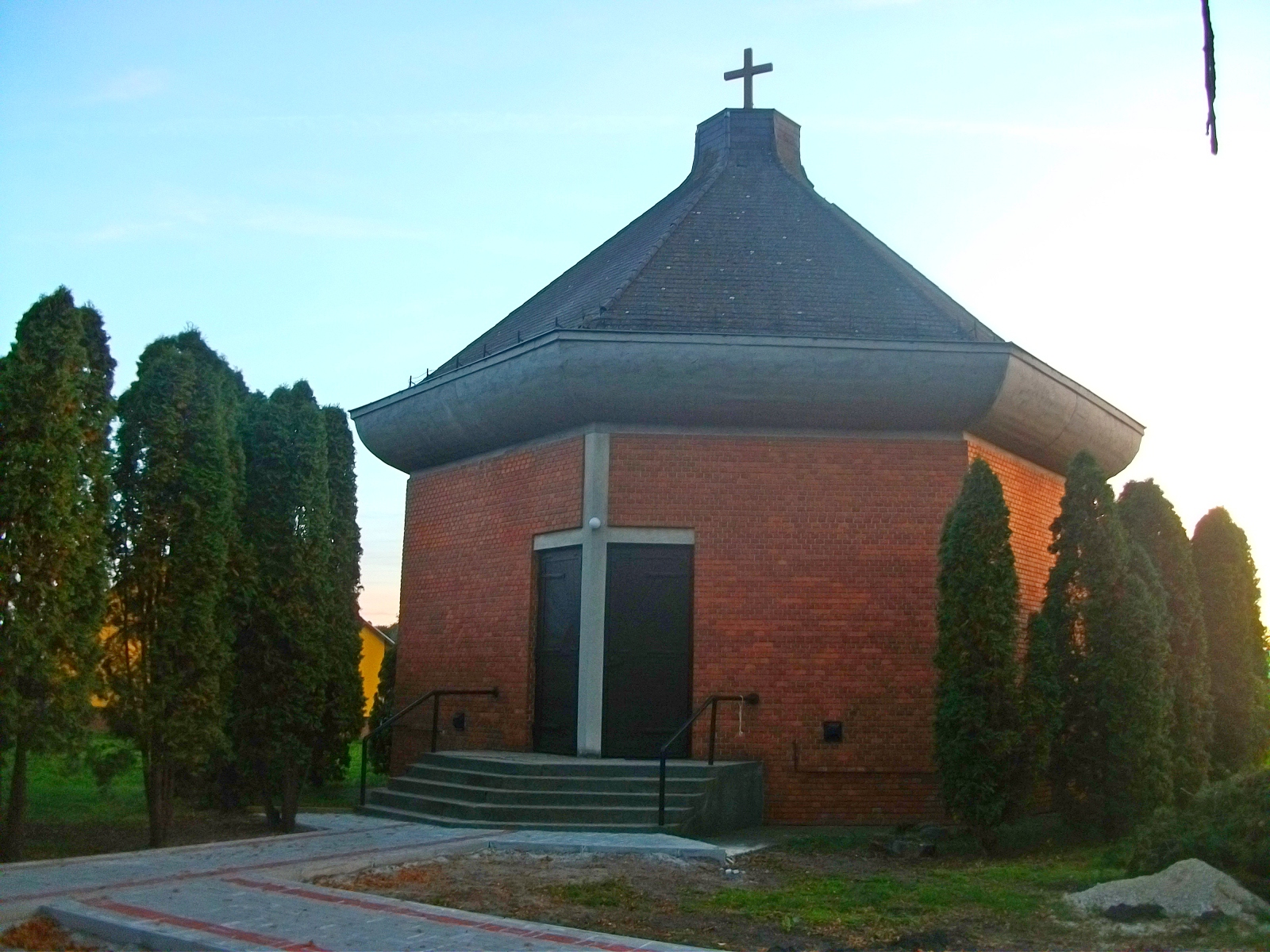 Saint Emeric Chapel, Zichyújfalu, Hungary